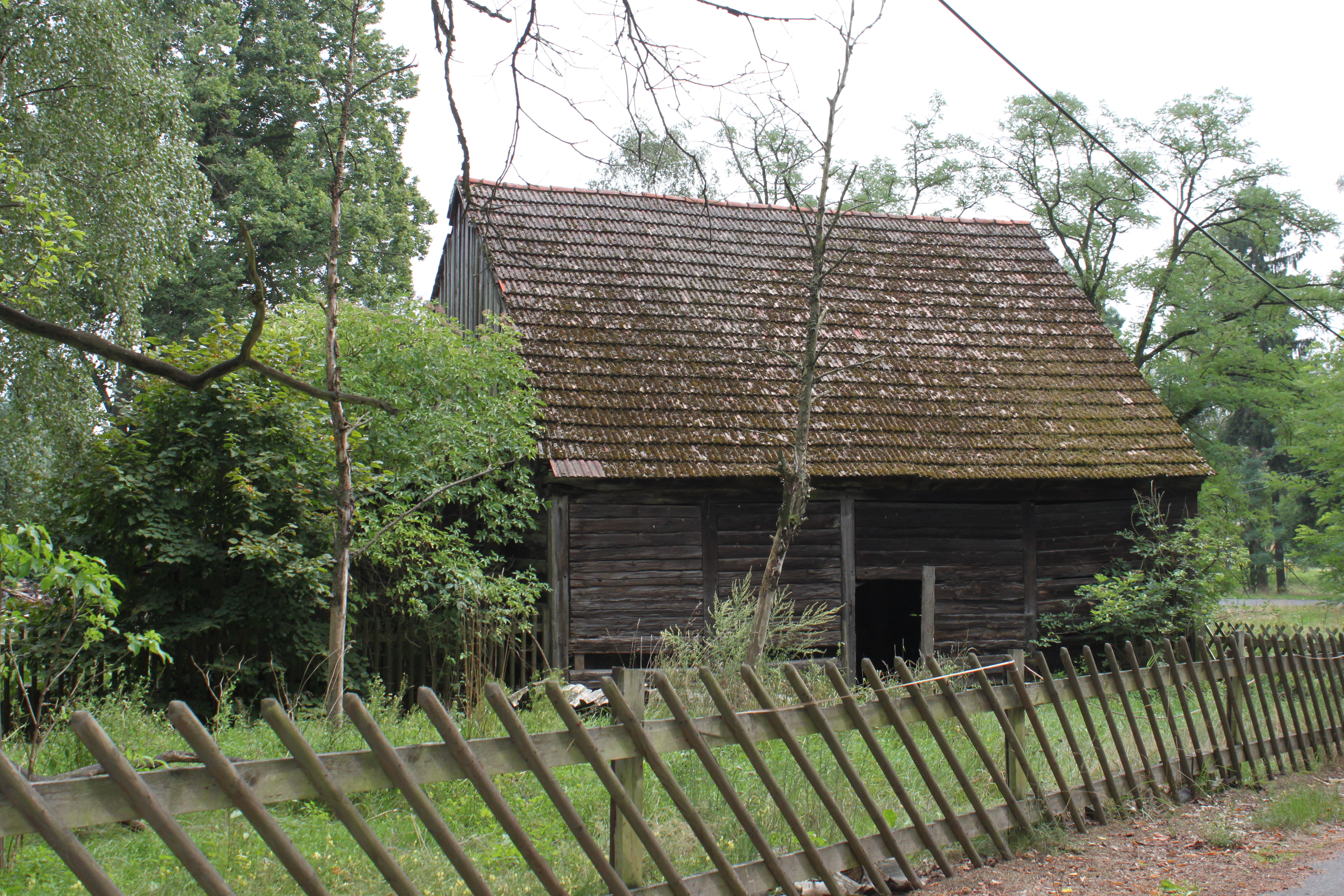 Schwarzenburg (Heideblick)